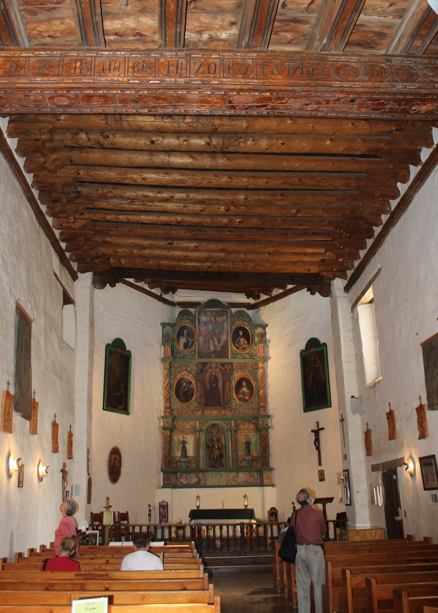 Santa Fe, NM USA - Altar (1798) of the Chapel of San Miguel